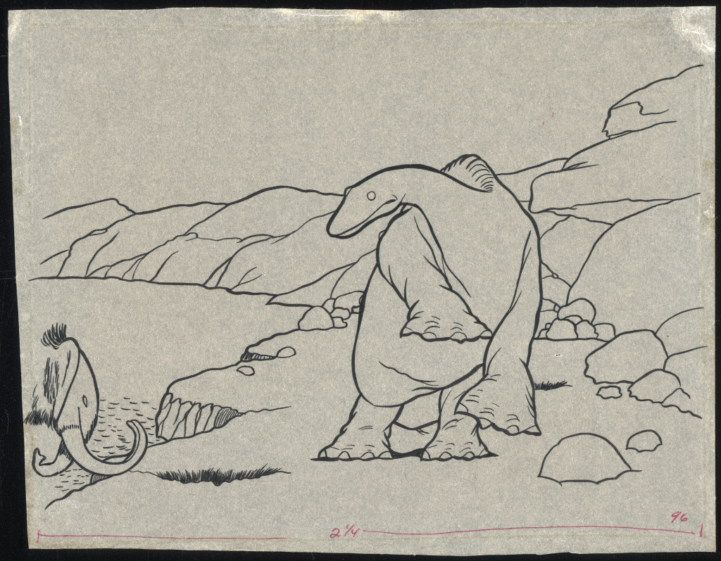 Original artwork for a frame of Winsor McCay's animated film Gertie the Dinosaur (1914). Gertie is looking at a mastodon named Jumbo.